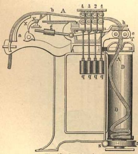 Drawing frame